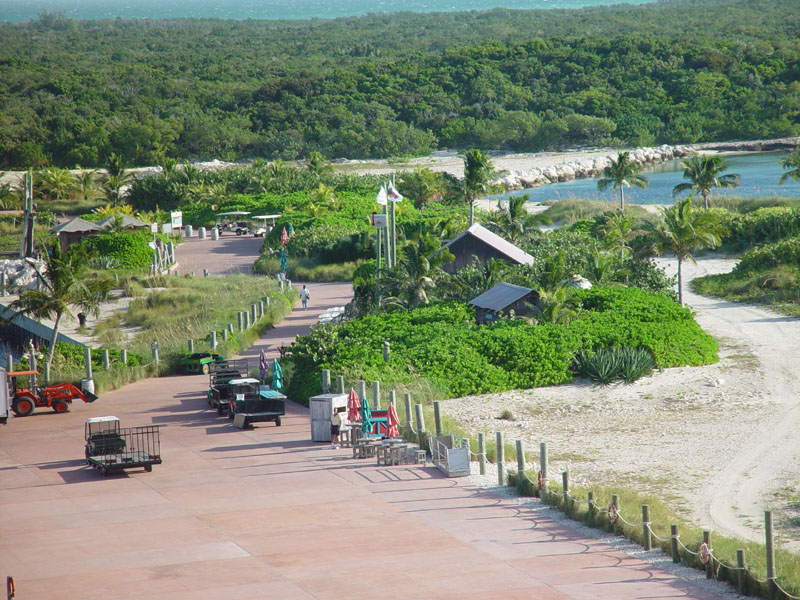 View of the dock at Castaway Cay from the cruise ship